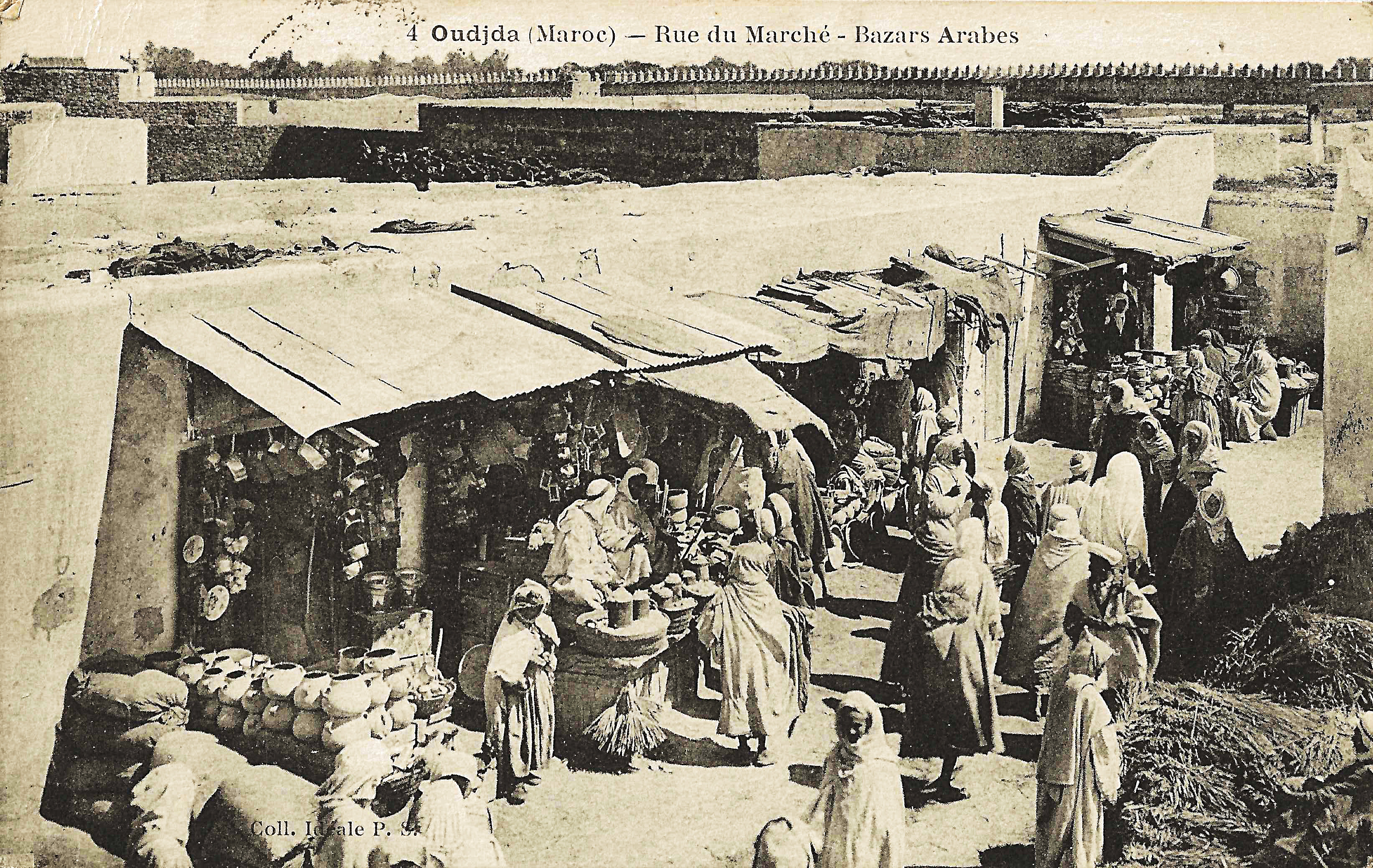 Title: 4 Oudjda ( Morocco) - Street of the Market - Arabic Bazar